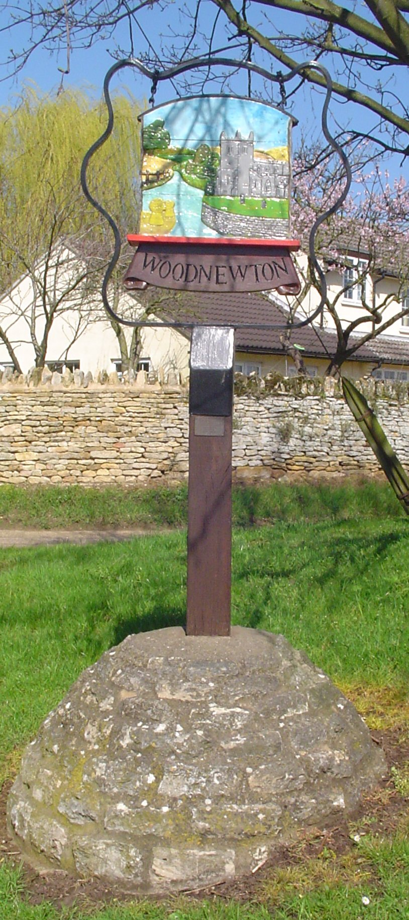 Signpost in Woodnewton